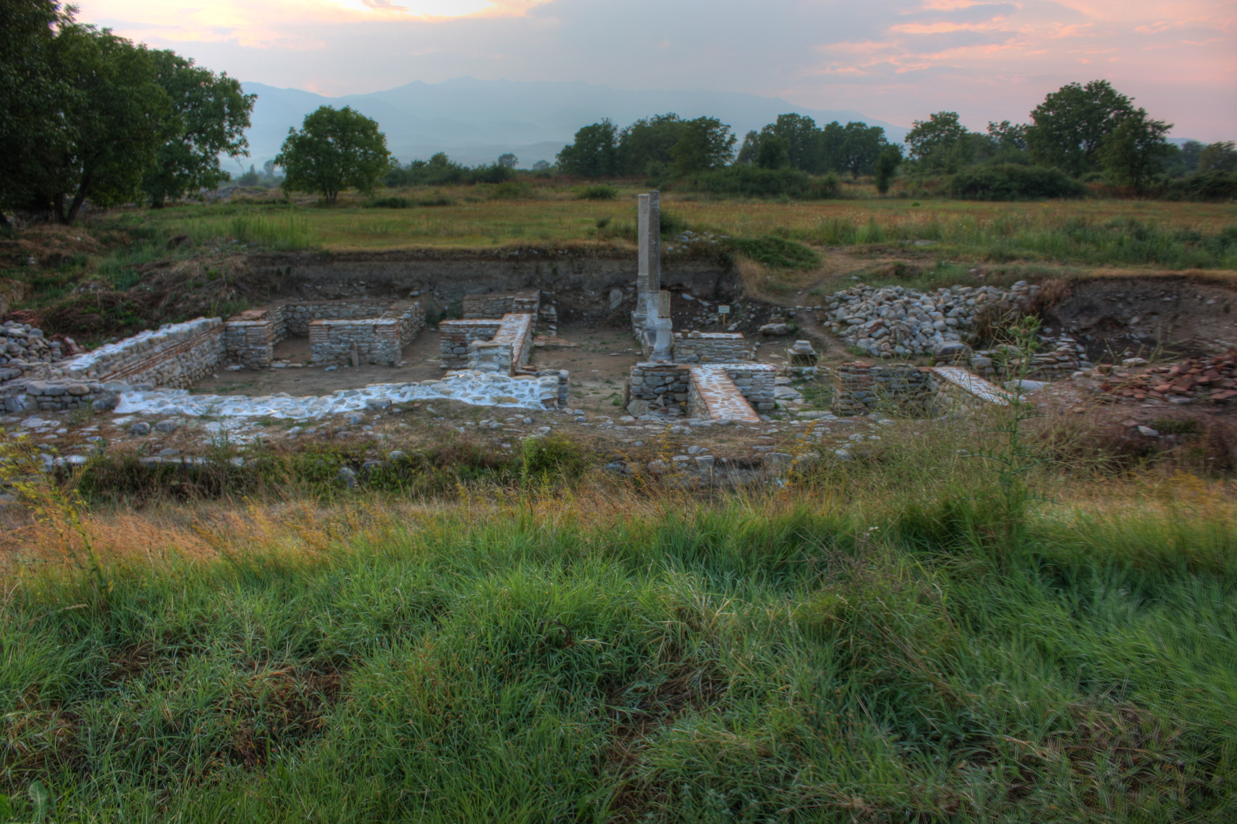 The Аncient Roman city Nicopolis ad Nestum next to Garmen village, Southwestern Bulgaria.